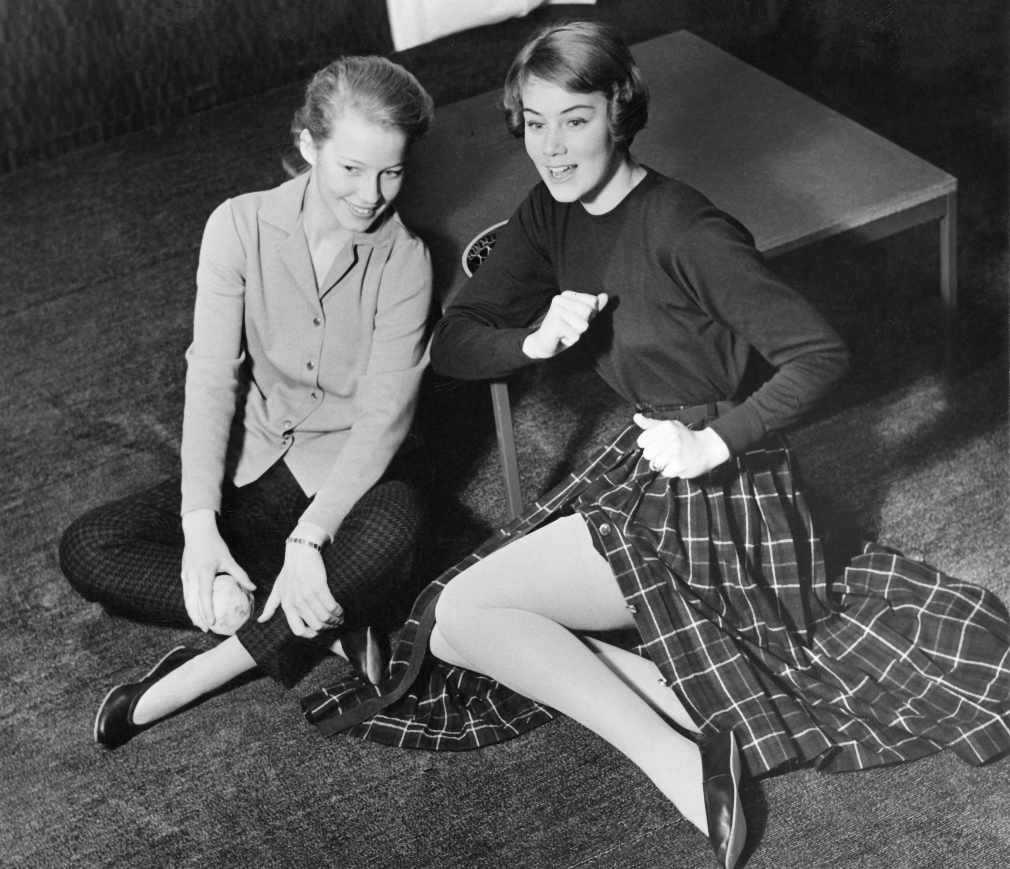 Fashion show at Nordiska Kompaniet. Teen Models in capri pants and jersey jacket and jumper, skirt in Scottish wool and stockings in crepe nylon, posing sitting on the floor. Both wearing ballerina shoes made of leather. Keywords: Girl, Clothing: Women's Clothing, Women, Fashion, Advertising, Youth.